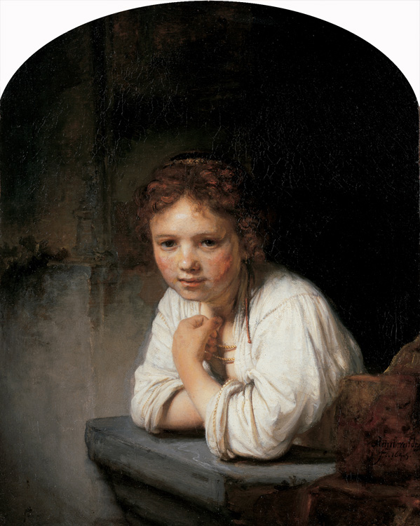 Girl in the Window